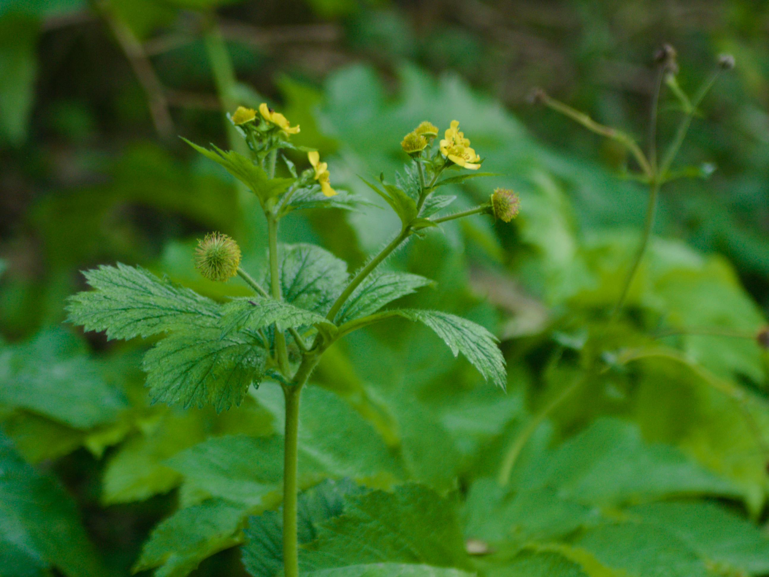 Flowers and Fruit of a Bigleaf Avens growing by the path to Miller Bay, Kaien Island, British Columbia, Canada